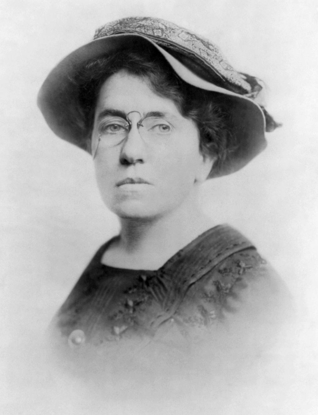 Emma Goldman, bust from "Anarchism and other essays". Photomechanical print.